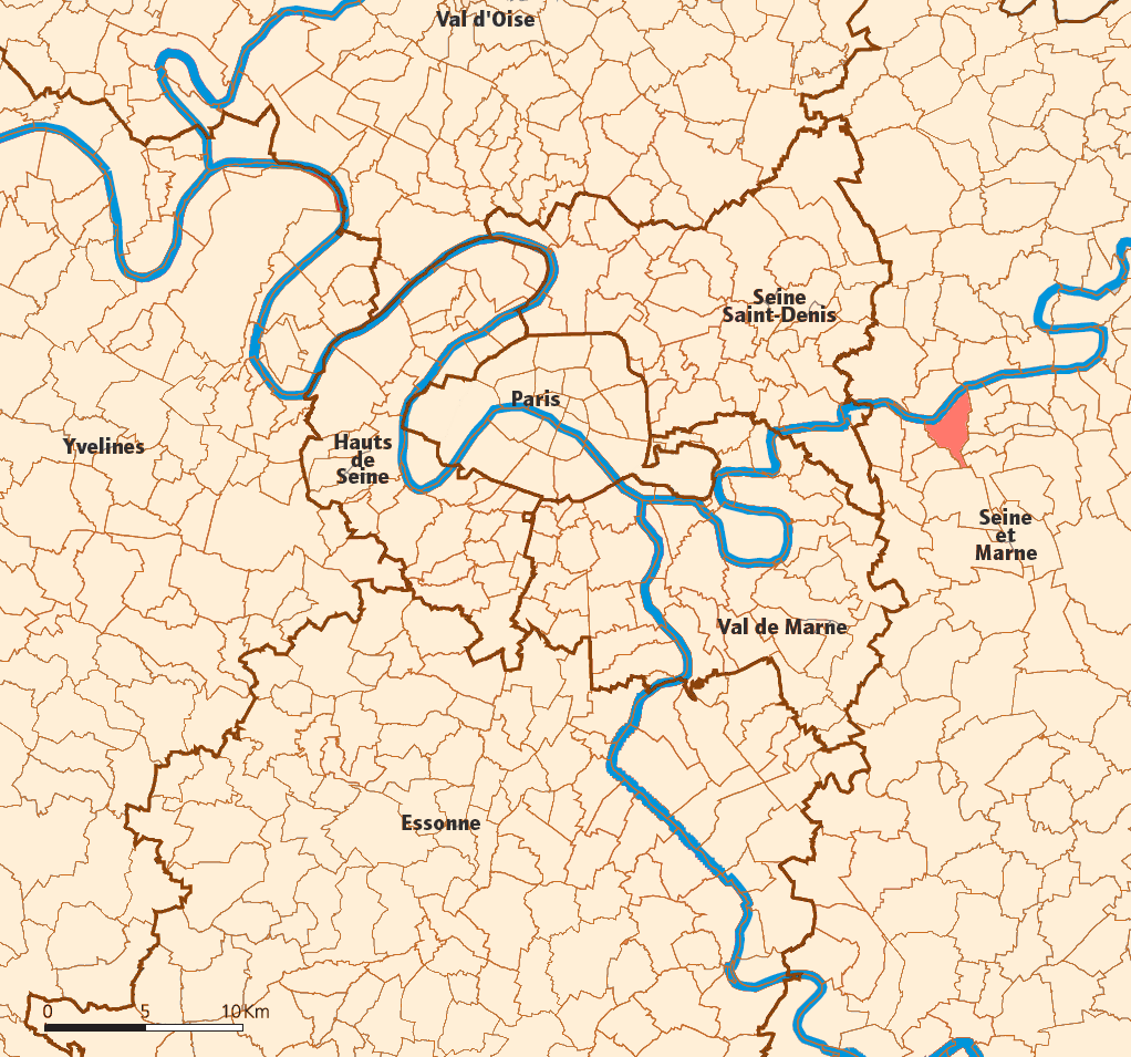 Created map myself